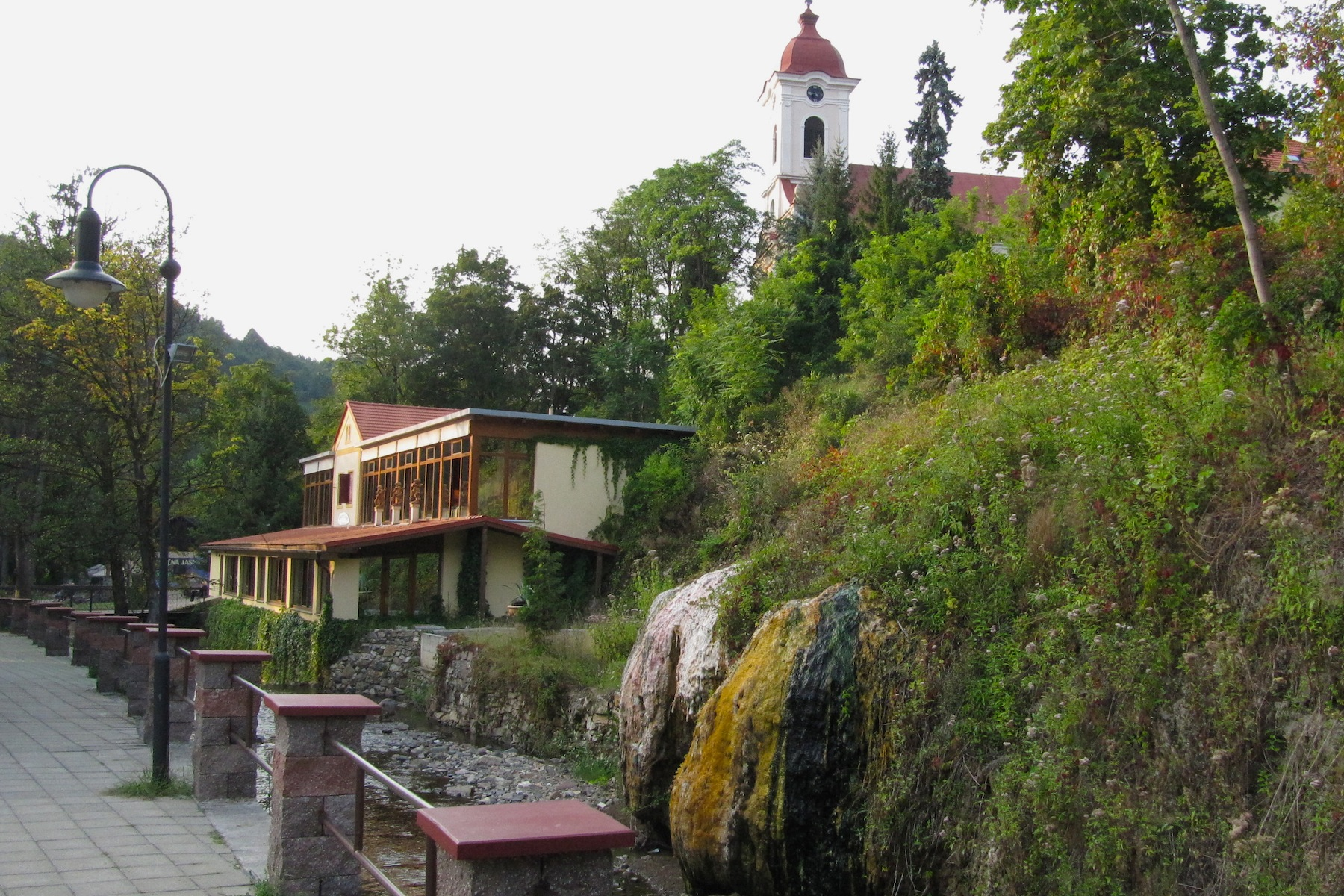 Church, Thermal Baths Jaskynia, river Tepla, Hot Spring in Sklené Teplice